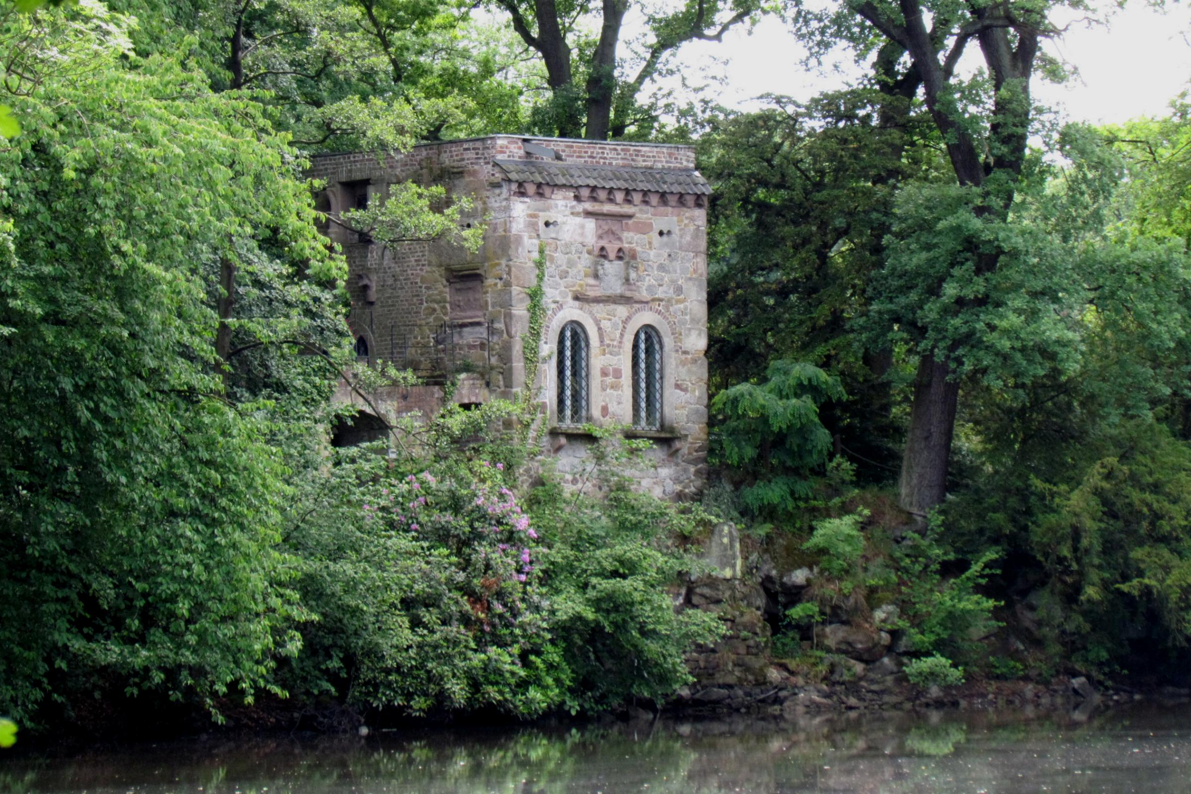 Cultural heritage monument No. 6/001a in Düren